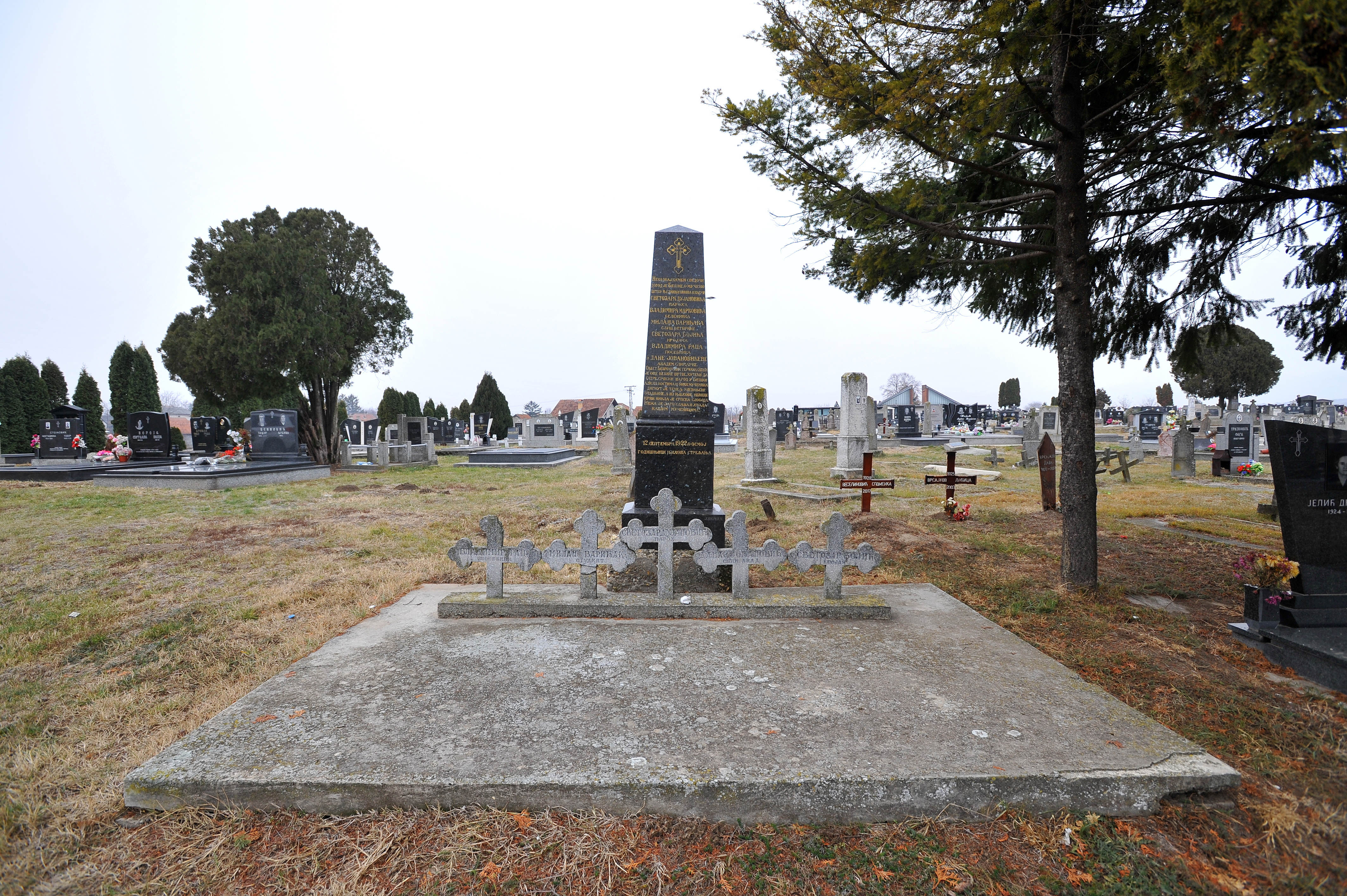 The monument devoted to the victims from village Beška, Inđija